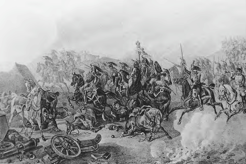 French cuirassiers charge into the Great Redoubt during the Battle of Borodino, 7 September 1812.